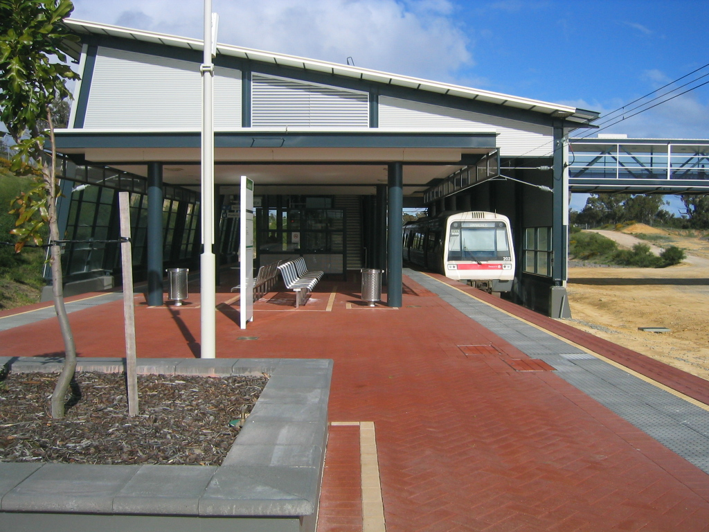 Transperth Clarkson Train Station